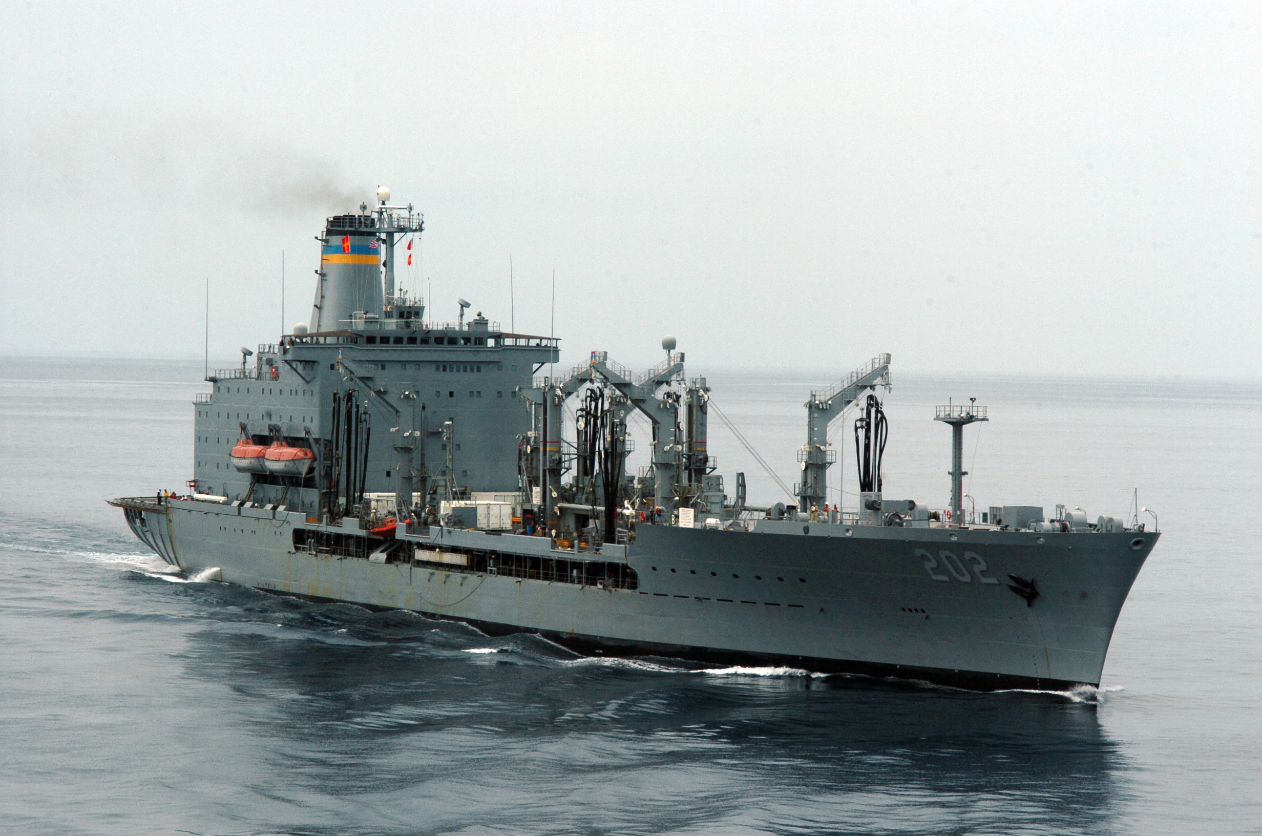 Nias, Indonesia (April 21, 2005) - The Military Sealift Command (MSC) underway replenishment oiler USNS Yukon (T-AO 202) makes an approach to come alongside MSC hospital ship USNS Mercy (T-AH 19) for an underway replenishment. At the request of the government of Indonesia, Mercy, MSC combat stores ships USNS Niagara Falls (T-AFS 3) and USNS San Jose (T-AFS 7) are on station off the coast of Nias, providing assistance as determined appropriate and necessary with earthquake disaster relief efforts and provide medical assistance to those in need. U.S. Navy photo by Photographer's Mate 3rd Class Rebecca J. Moat (RELEASED)